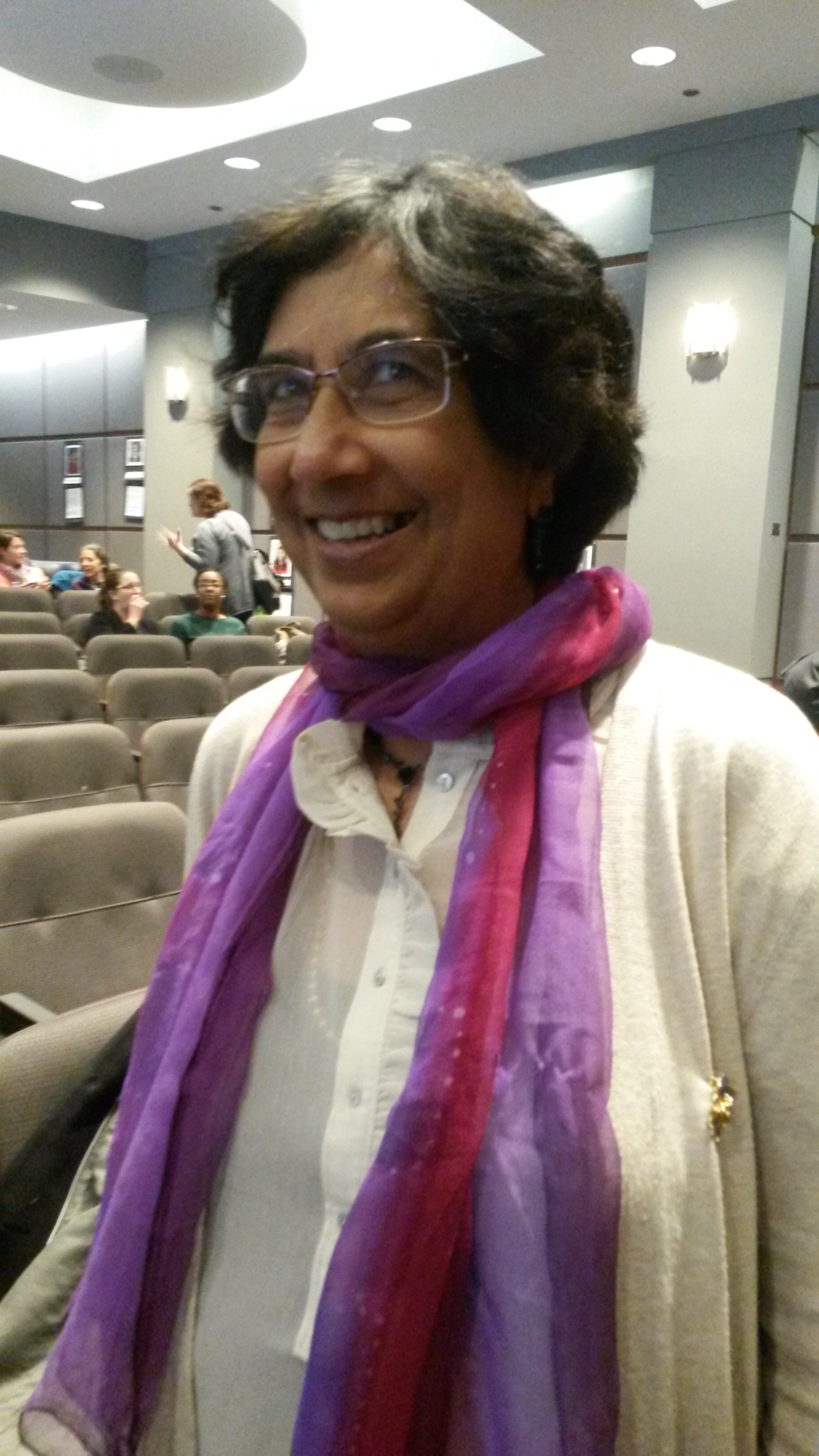 Abha Saxena